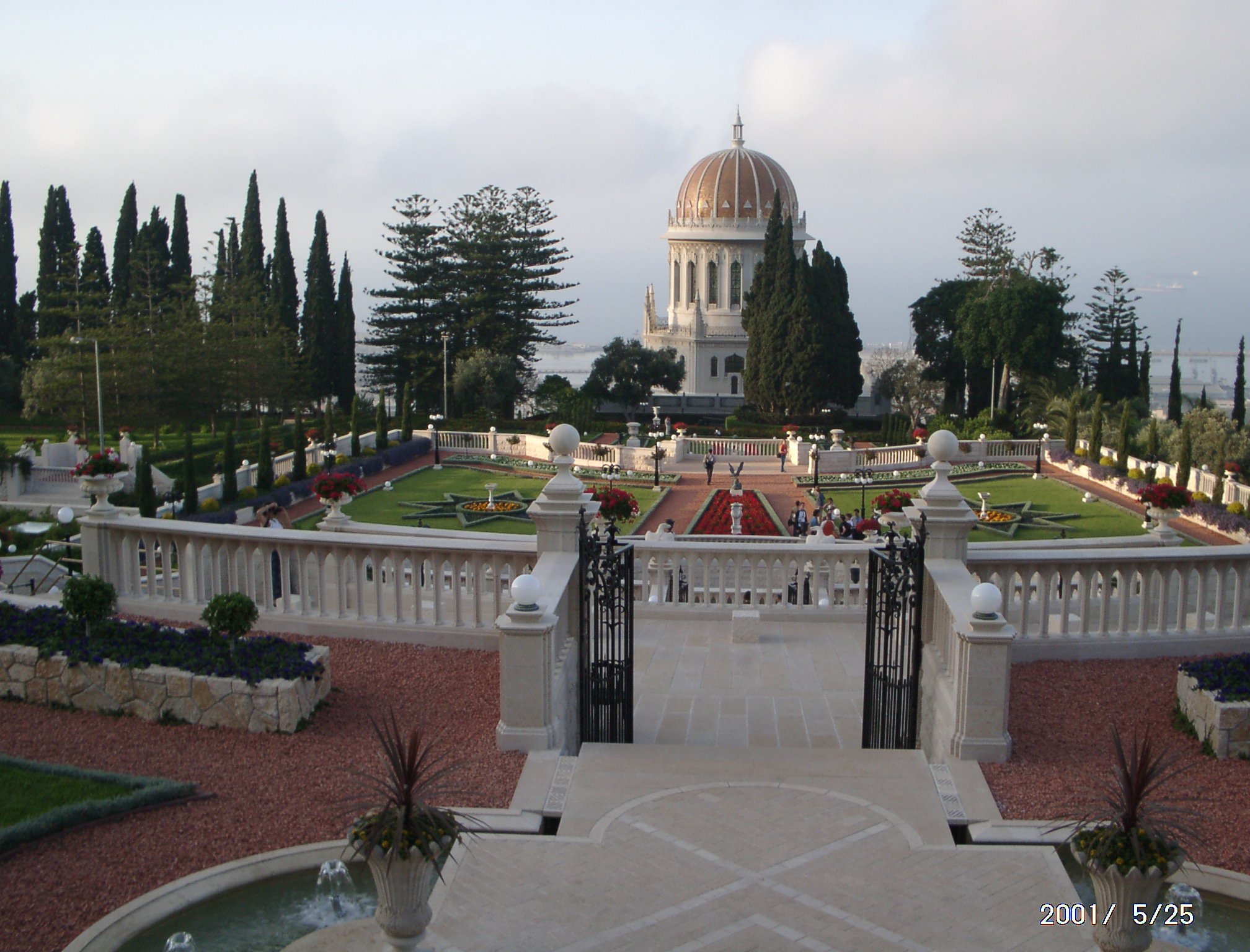 Shrine of the Báb in Haifa, Israel.